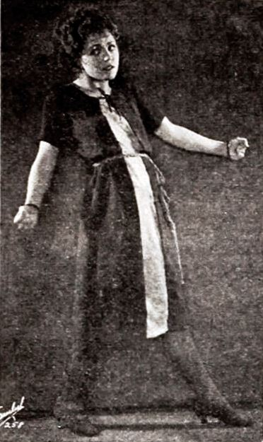 Still from the American romance film The Guttersnipe (1922) with Gladys Walton, on page 42 of the February 25, 1922 Exhibitors Herald.